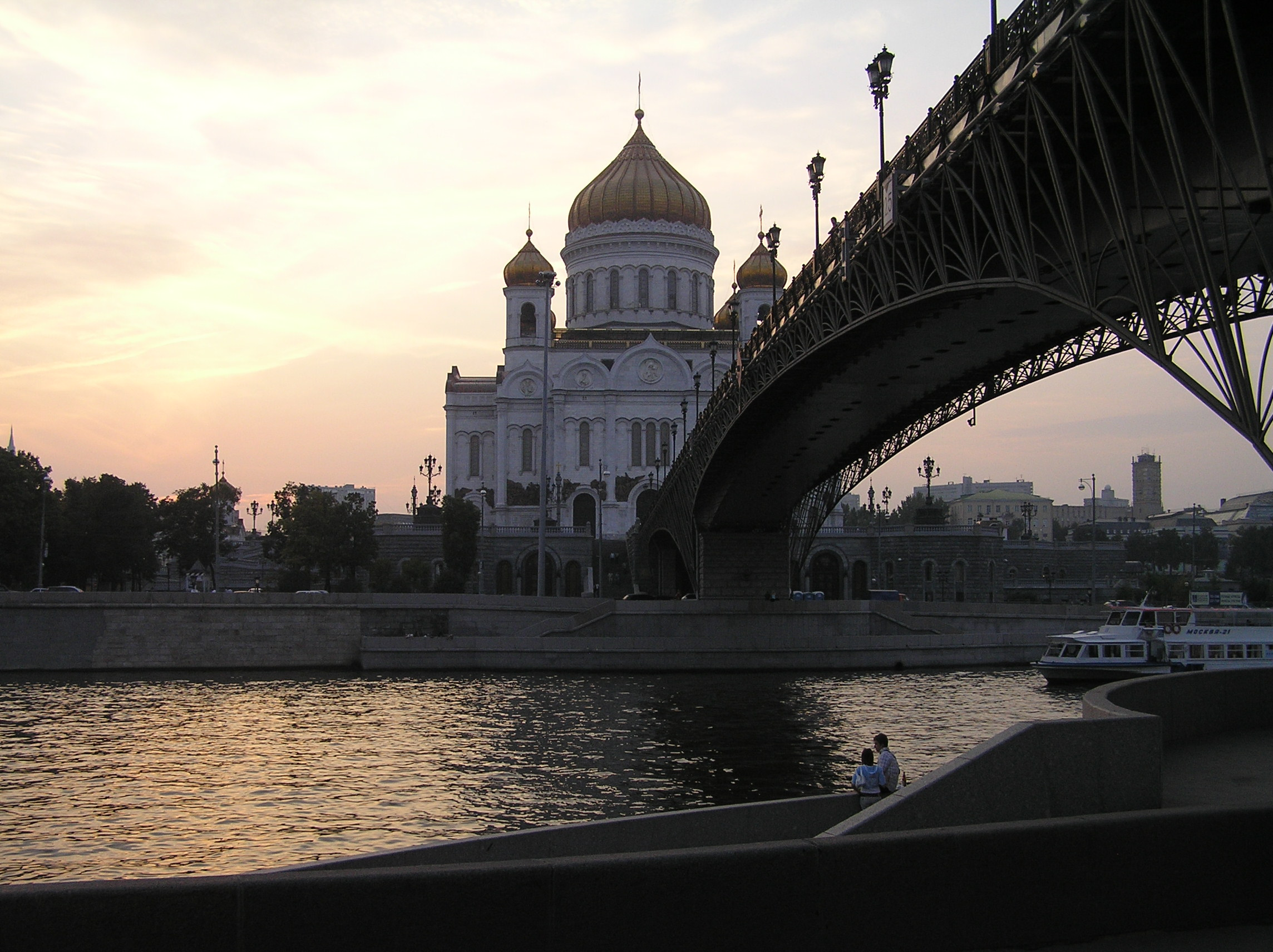 Cathedral of Christ the Saviour Moscow 21 August 2007